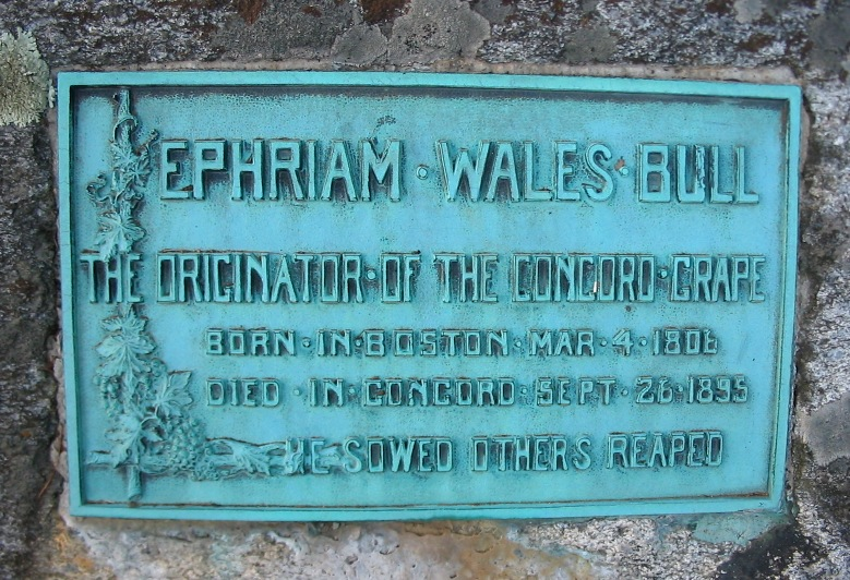 Epitaph of Ephraim Wales Bull (plate set on a large stone marking the grave). Sleepy Hollow Cemetery, Concord, Massachusetts.